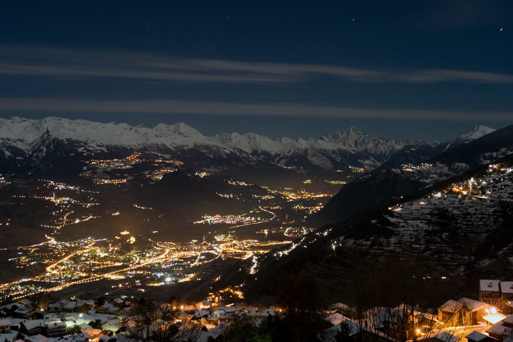 View over the valley from Nendaz, Valais, Switzerland